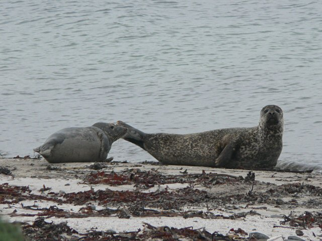 Grey seal and pup.